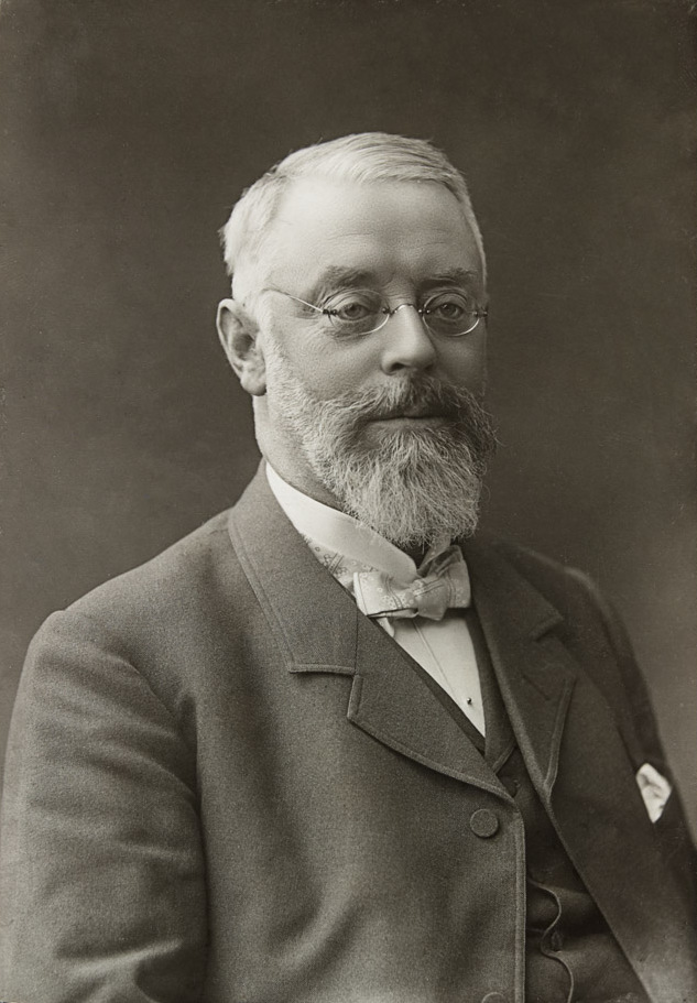 Wollert Konow (H), liberal Norwegian member of Parliament, minister of the interior, and minister of agriculture. NOTE: This is not Wollert Konow (SB), prime minister of Norway 1910-12!